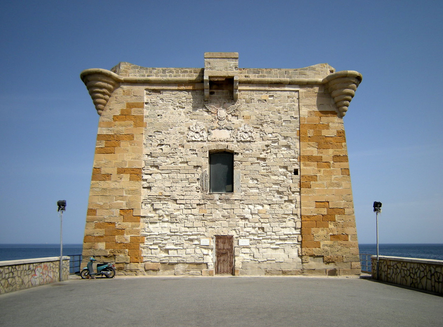 The Ligny Tower in the town of Trapani, Sicily, Italy. The Tower was built in 1671 by order of the viceroy's Moraldo Claudio, Prince de Ligne.